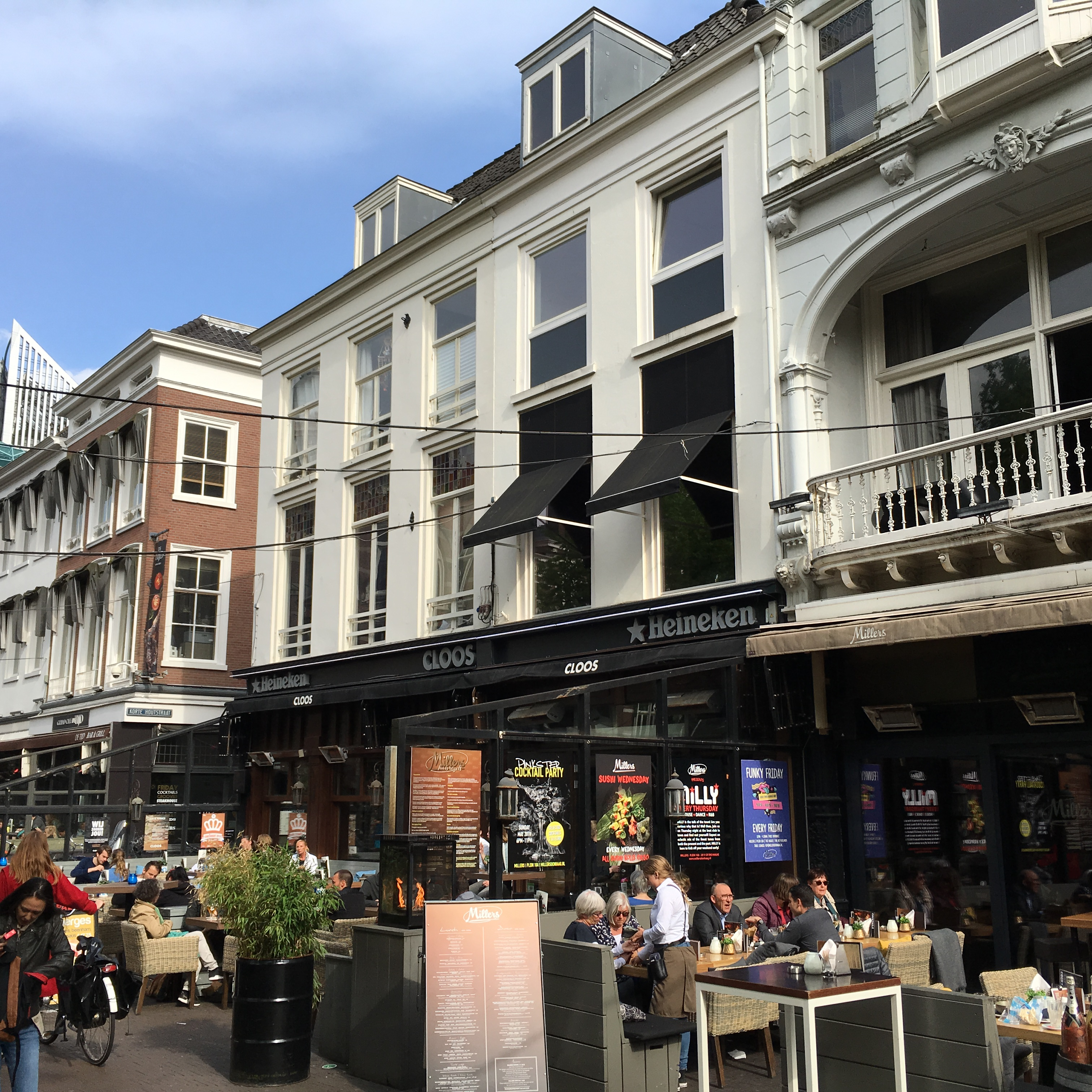 House where Gabriel Fahrenheit died in 1736, at Plein square, The Hague. From August 1736 Fahrenheit stayed in the house of Johannes Frisleven at Plein square in The Hague, in connection with an application for a patent at the States of Holland. At the beginning of September he became ill and on the 7th his health had deteriorated to such an extent that he had notary Willem Ruijsbroek come visit him to draw up his will. On the 11th the notary came by again to make some changes. Five days after that Fahrenheit died at the age of fifty. Four days later he received a fourth-class funeral, which meant that he was destitute, in the Kloosterkerk in The Hague. (the Cloister or Monestary Church)